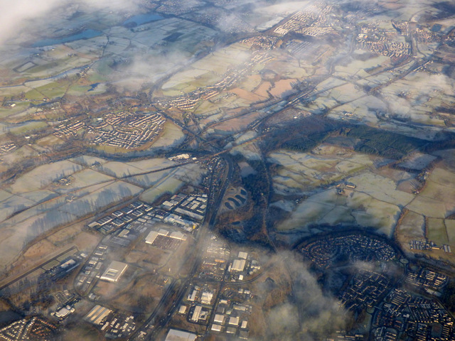 Cumbernauld from the air The M80 motorway can be seen heading north to Stirling via Castlecary, where the Forth & Clyde canal and the main Glasgow to Edinburgh railway both cross (one under, one over). Banknock and Bonnybridge are also visible.